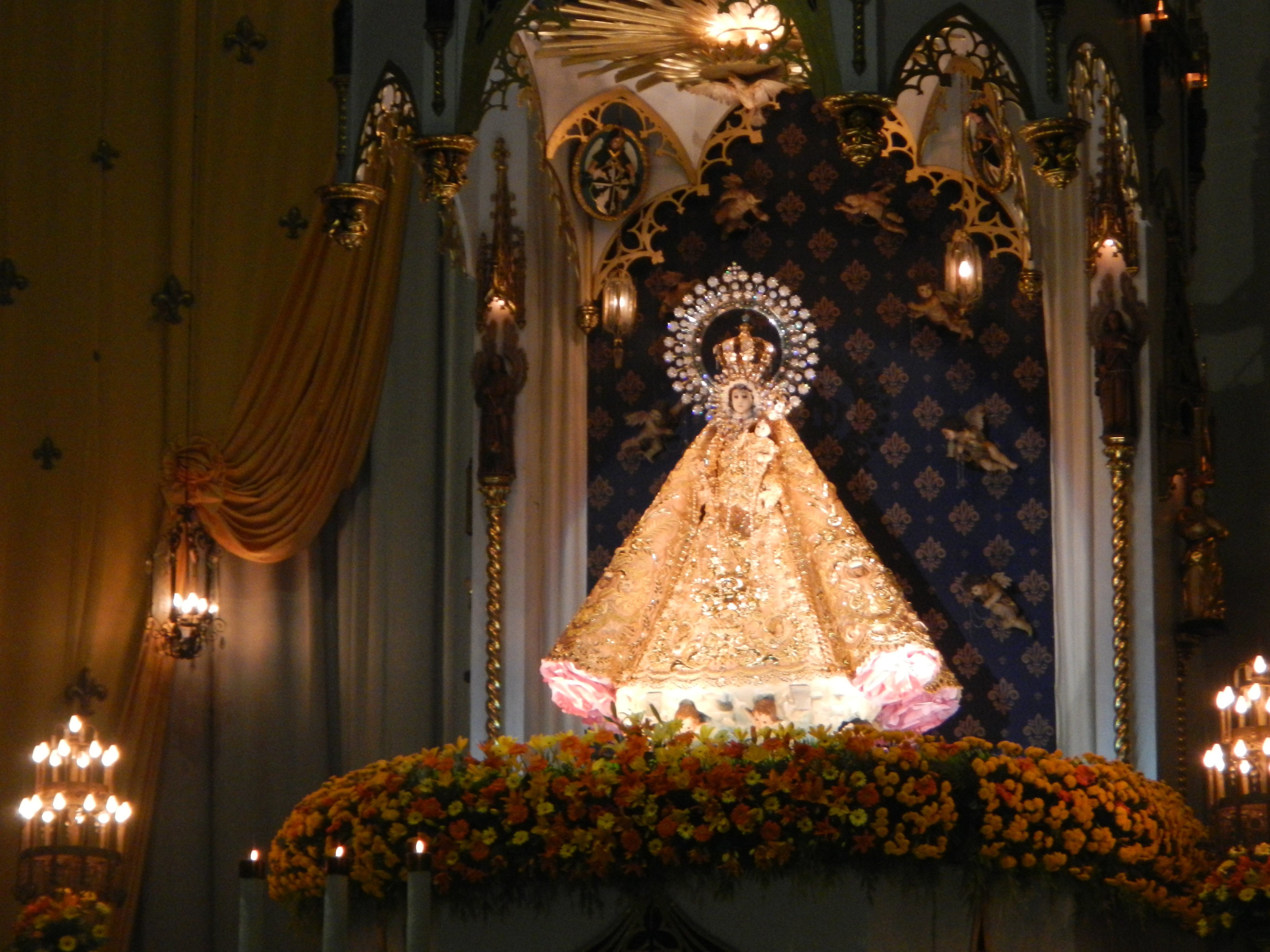 Our Lady of the Most Holy Rosary of La Naval de Manila[1]